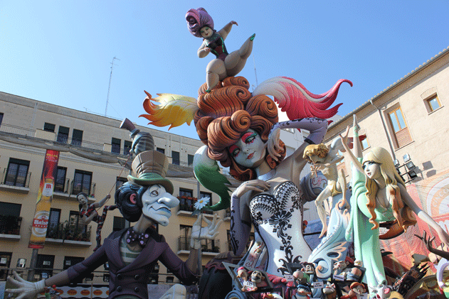 Plaza Pilar